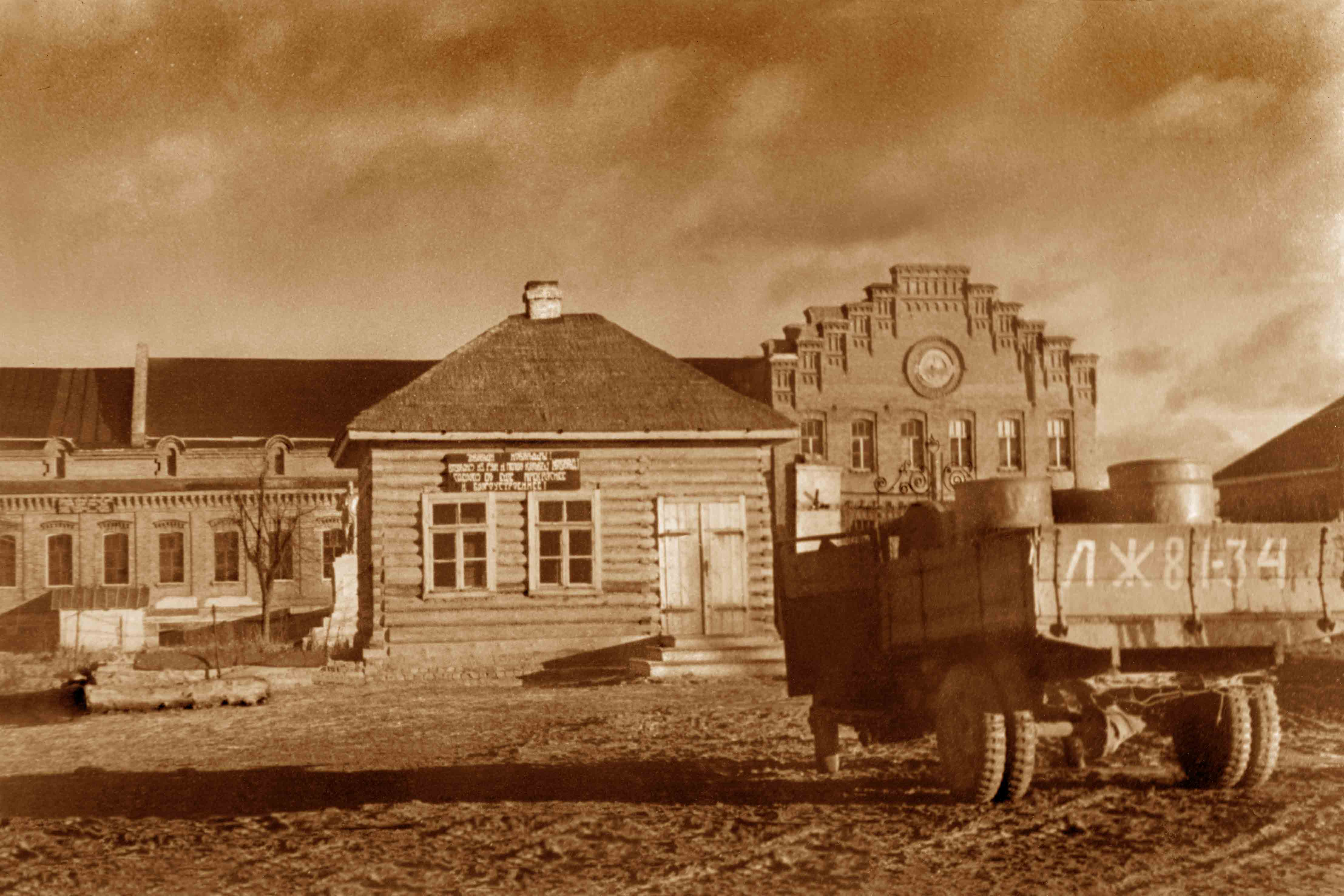 alkon in 1945